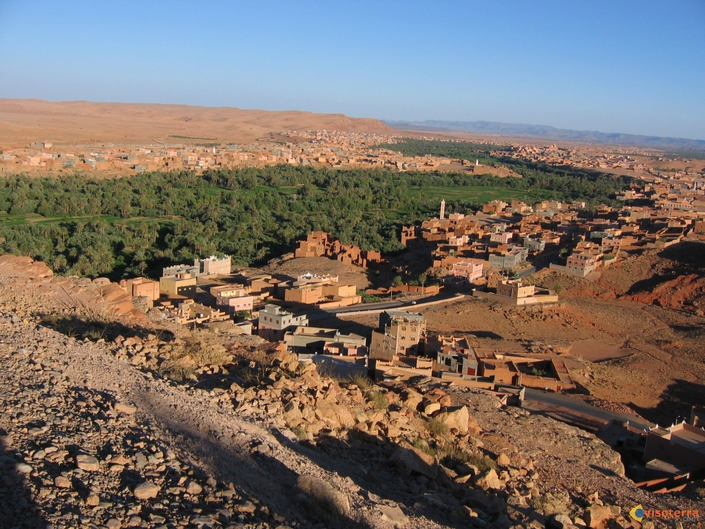 large picture tinghir